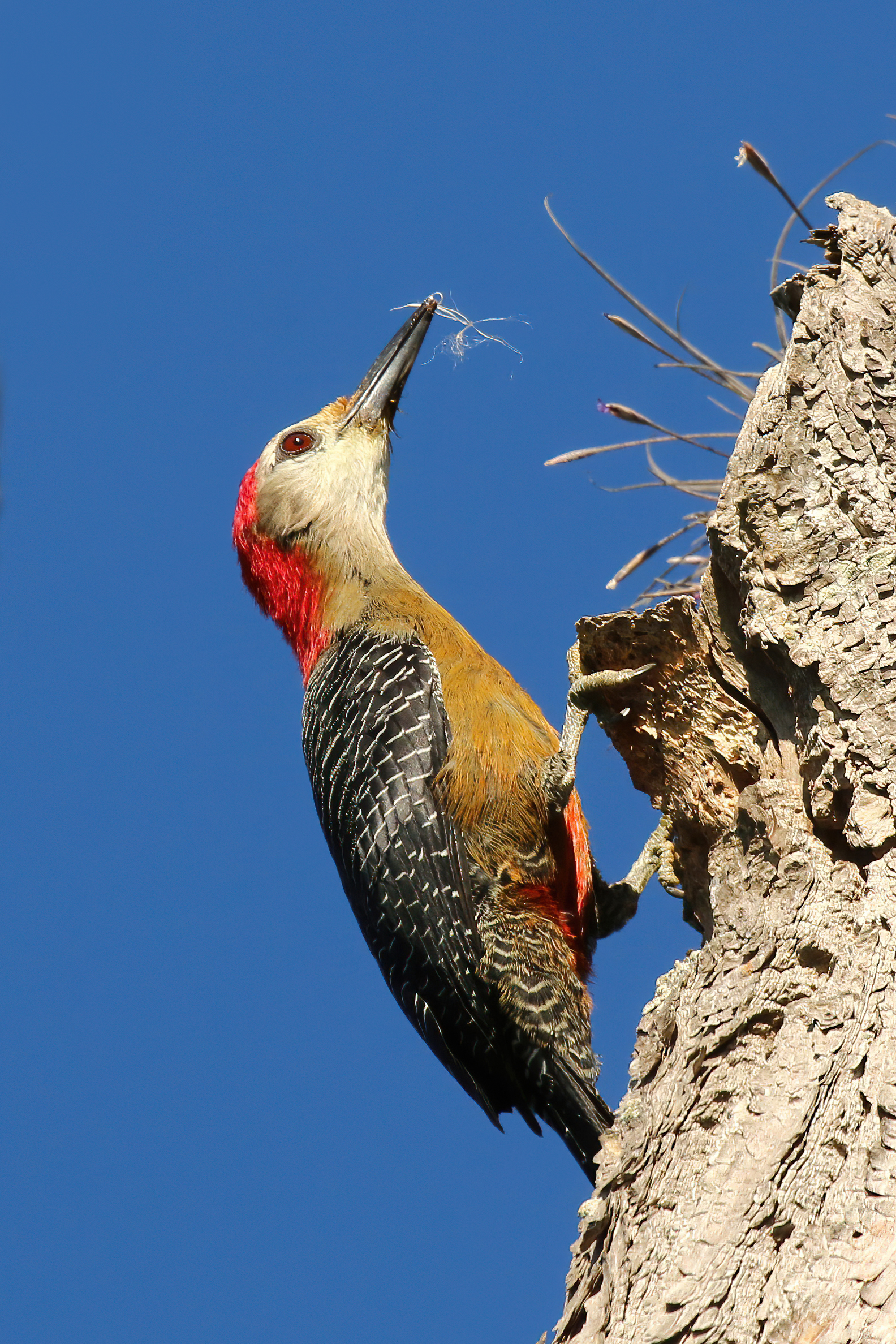 Jamaican woodpecker (Melanerpes radiolatus) male, Jamaica